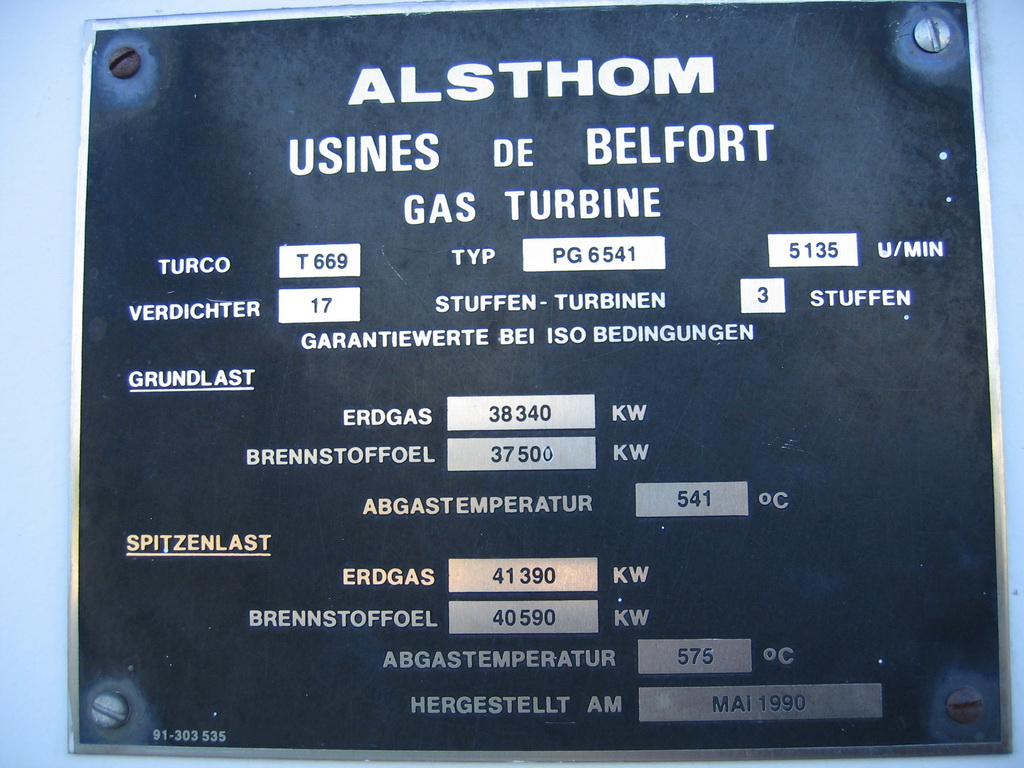 Type plate from a General Electric MS6001B gasturbine at the powerplant Ahrensfelde